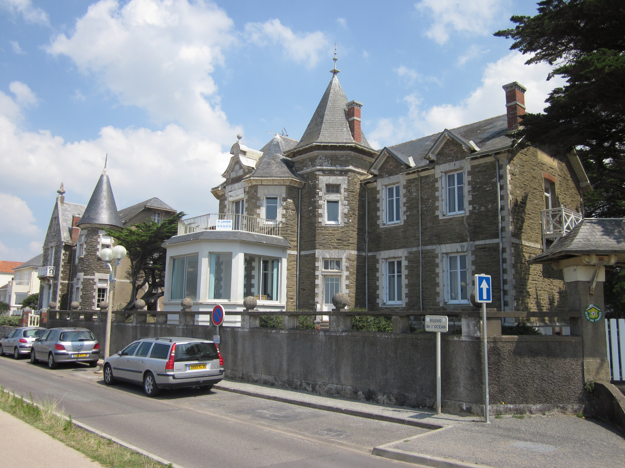 Villas on the promenade (Boulevard de l'océan), Tharon-Plage (Saint-Michel-Chef-Chef), Loire Atlantique, France